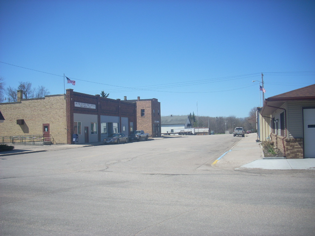 Downtown Fisher, MN. Looking WSW on Thompson ave from 3rd St S.